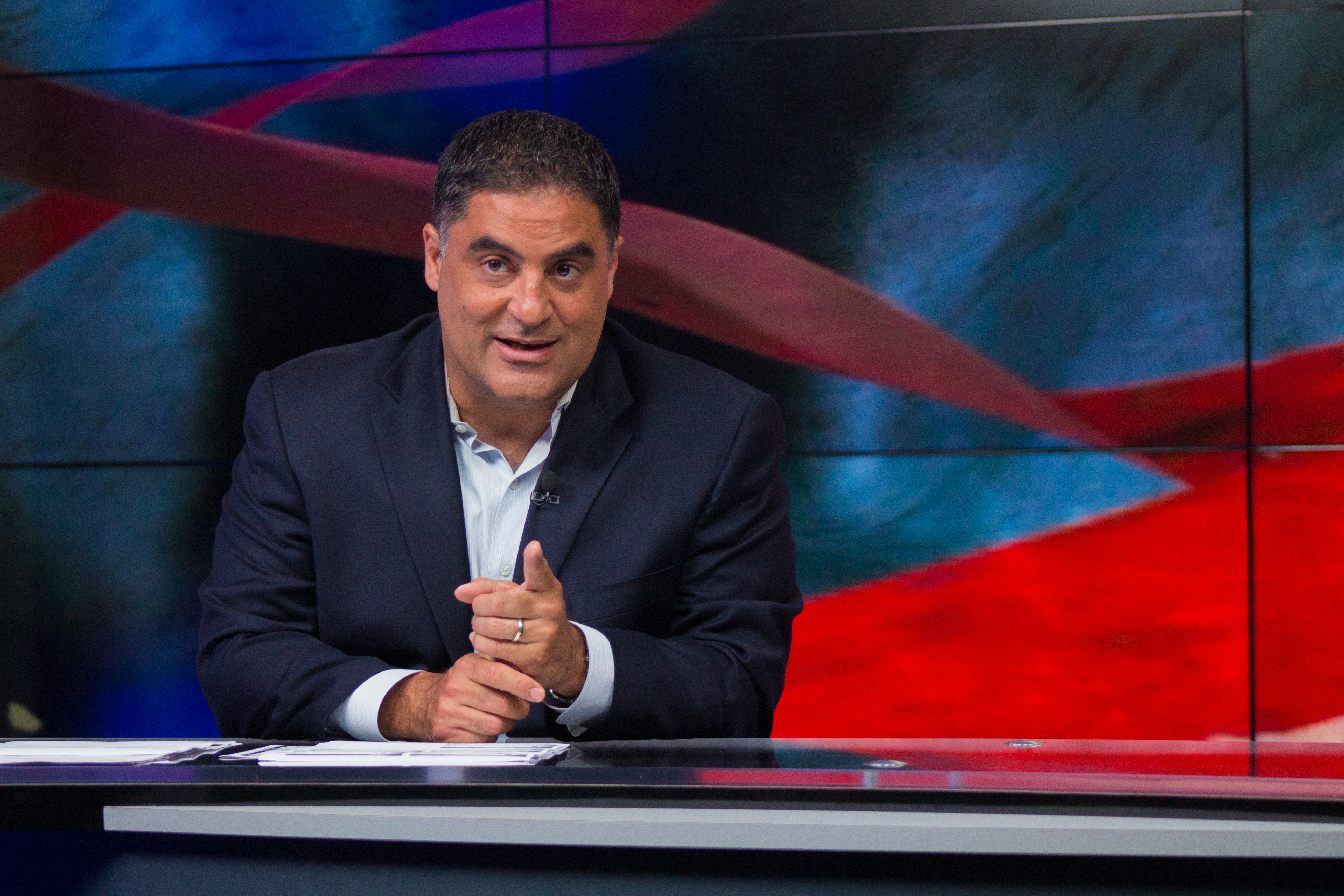 Cenk Uygur gesturing while hosting The Young Turks live streaming show on June 23, 2015.